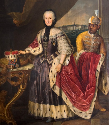 Francisca Christina of the Palatinate-Sulzbach (1696-1776) Princess-Abbess of Essen and Thorn